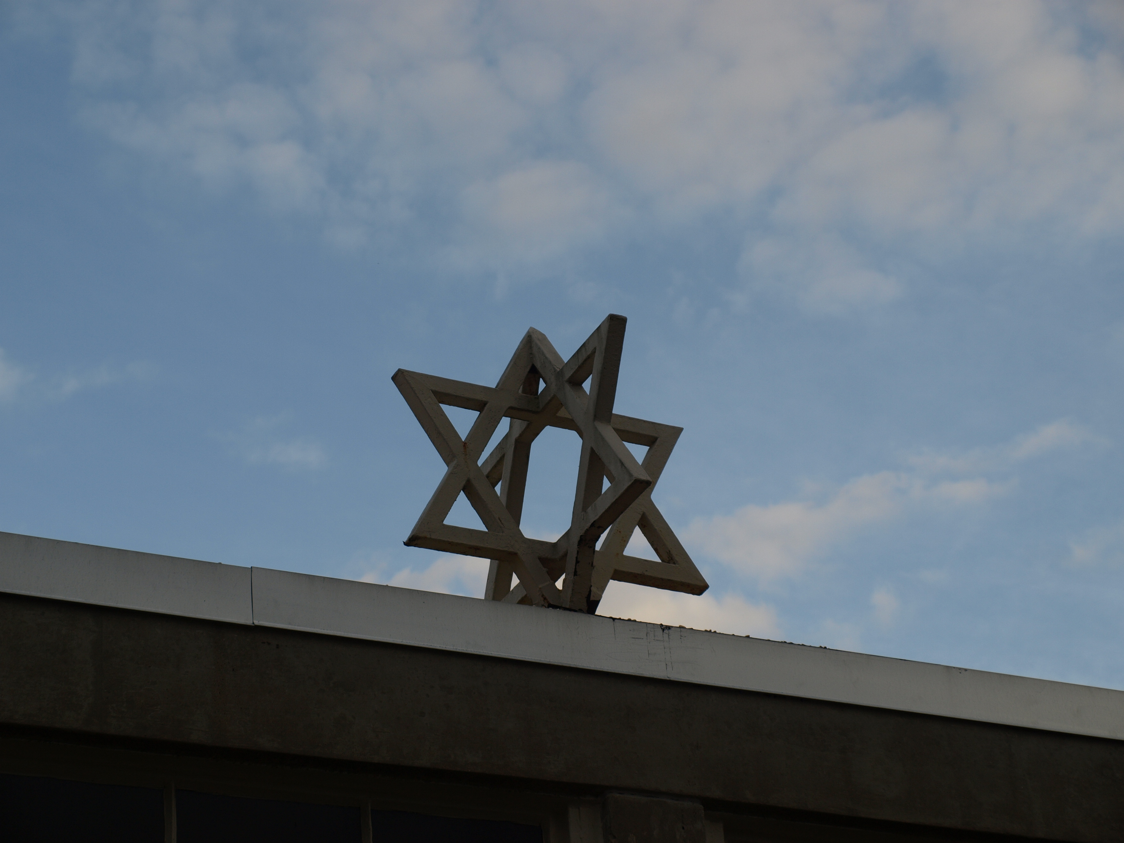 A Star of David sculpture at Agudath Israel Etz Ahayem synagogue in Montgomery, Alabama, USA